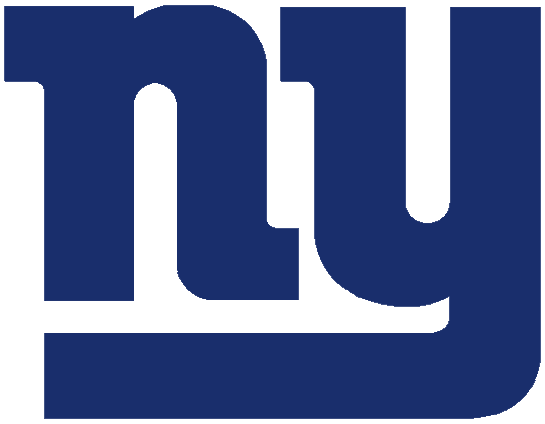 "ny" New York Giants primary logo 1961-1974.